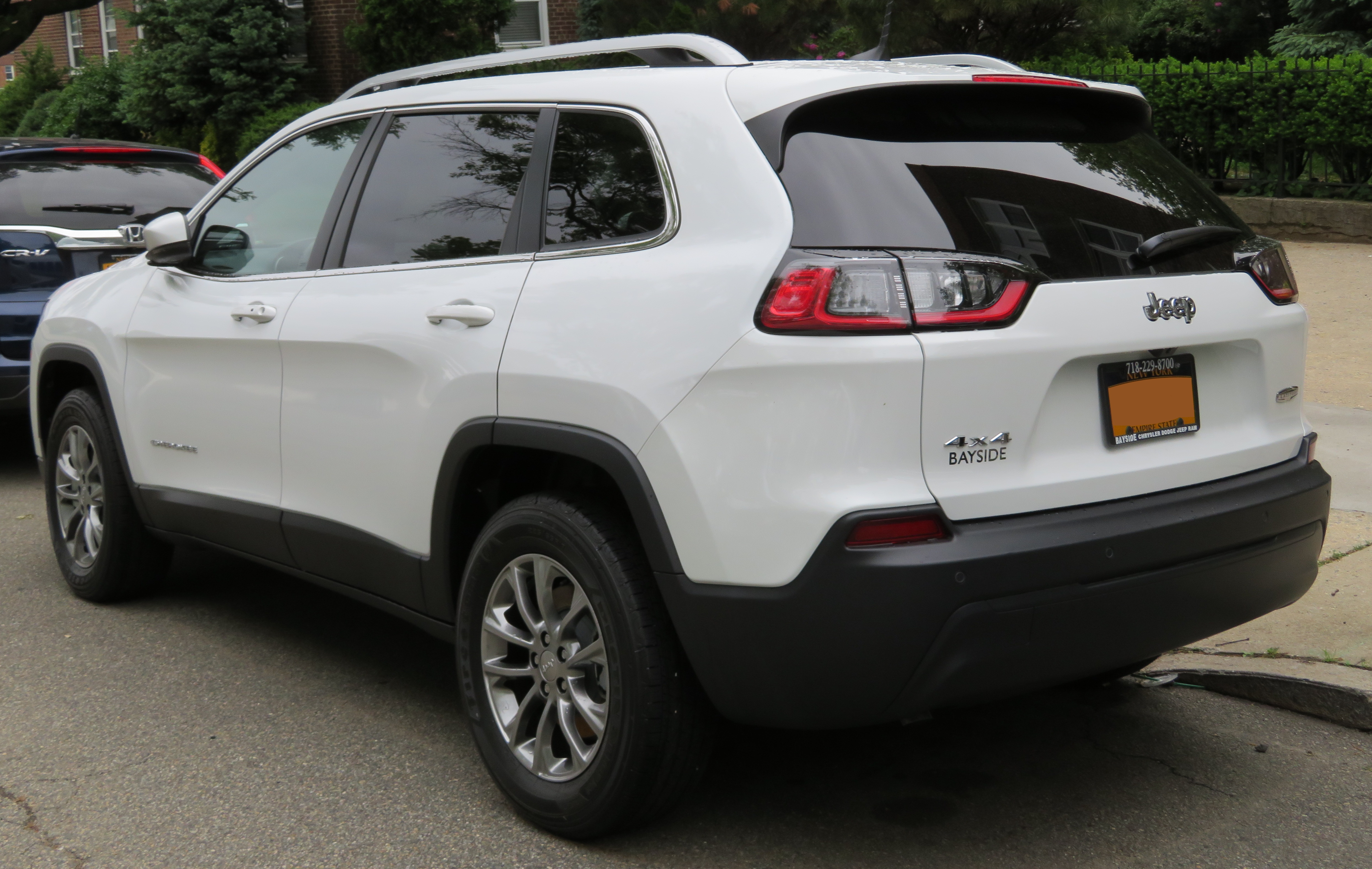 Photographed in Queens, New York